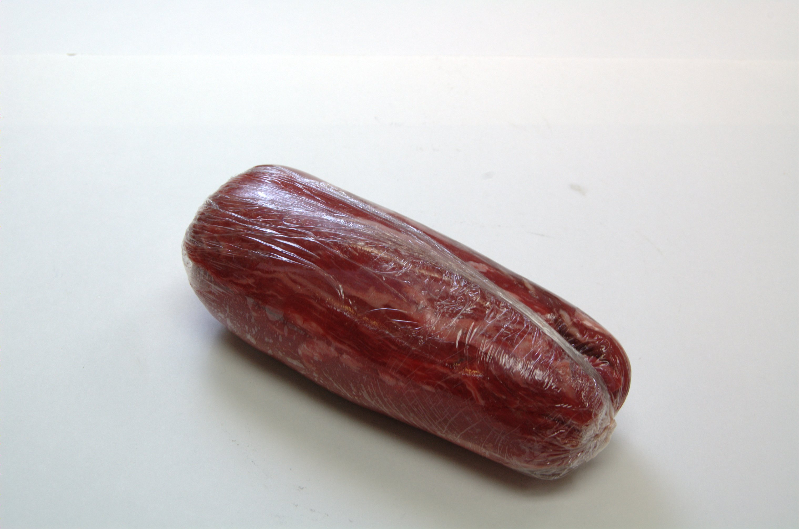 Three bistro tenders (teres major) joined together in a roll with Activa GS. The tenders will set overnight before being sliced to weight, cooked, and served. Product courtesy of The Boathouse at Sunday Park.